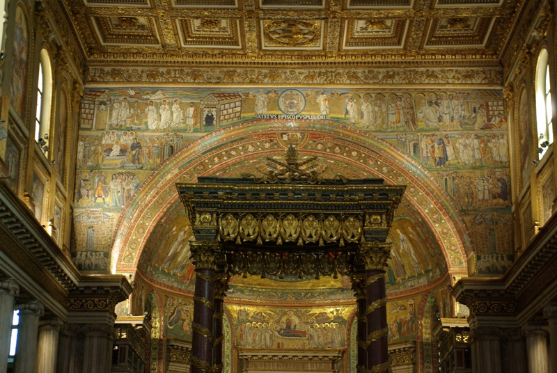 Santa Maria Maggiore, apse mosaic